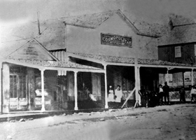 The Cosmopolitan Restaurant in the 1800s.